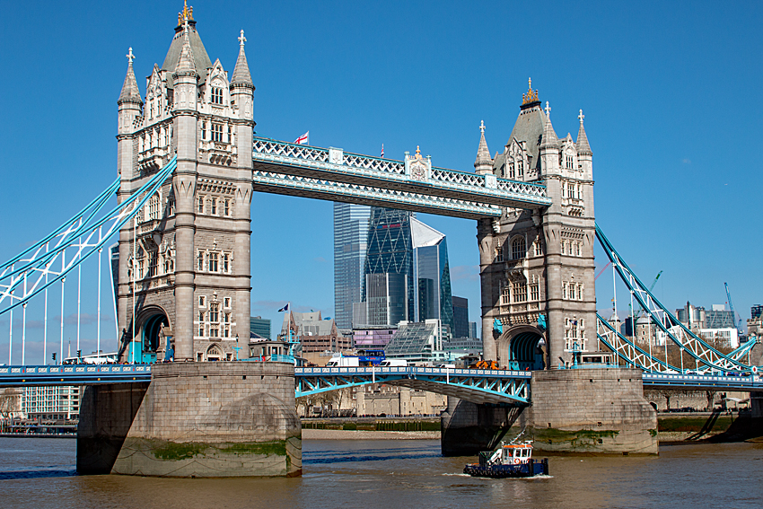 PLA pusher tug Impulse passing under Tower Bridge